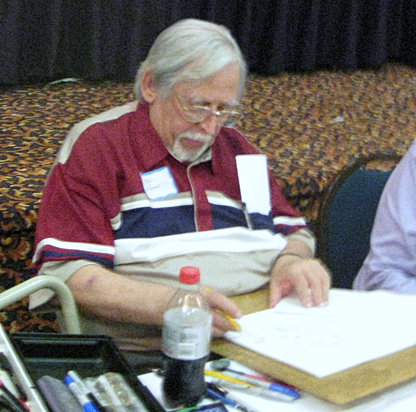 Dick Giordano. Tempa Convention - August 2008